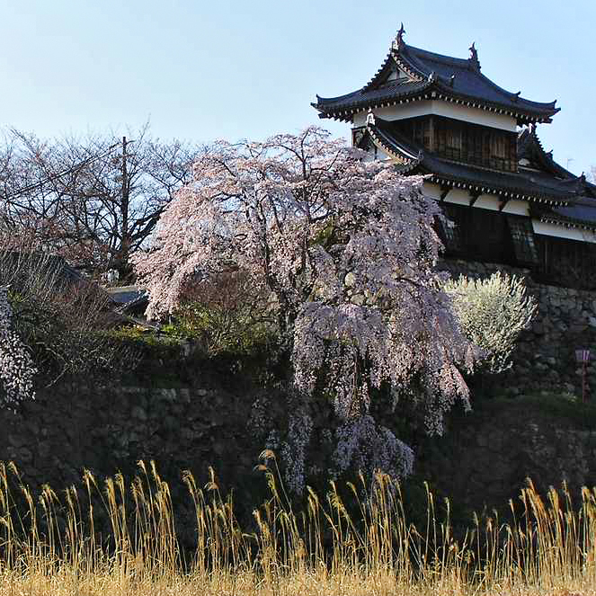 Kōriyama Castle in Yamatokoriyama, Nara prefecture, Japan.